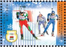 Part of Belarus souvenir sheet no. 72, commemorating the 2010 Winter Olympics and featuring the biathlon.